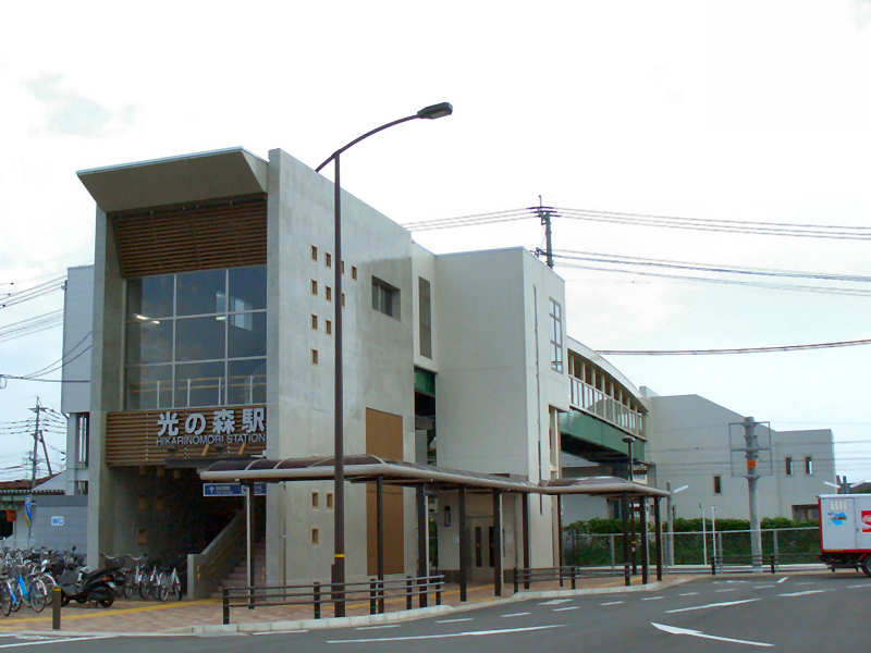 Hikari-no-Mori Station, Kumamoto City, Kumamoto, Japan